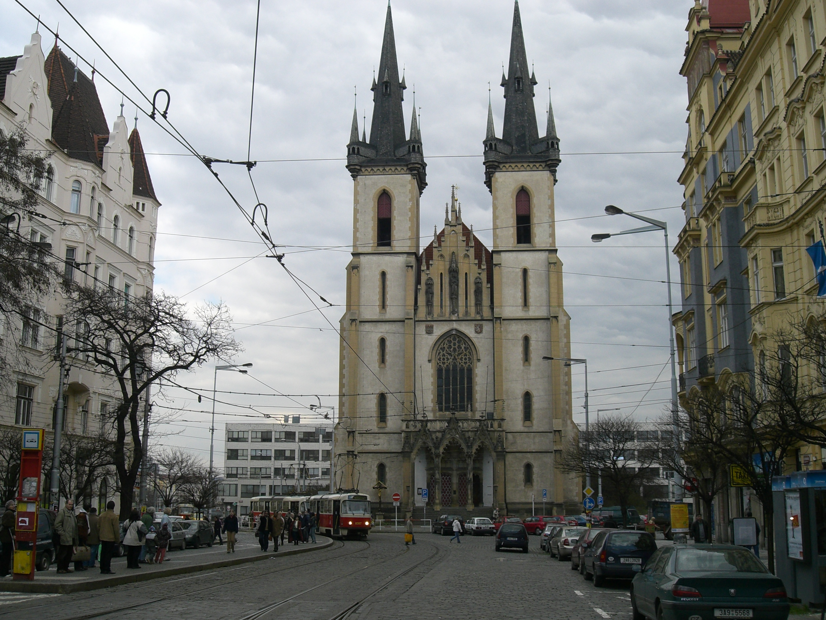 Strossmayer square with church sant Antonio from Padov, Prague